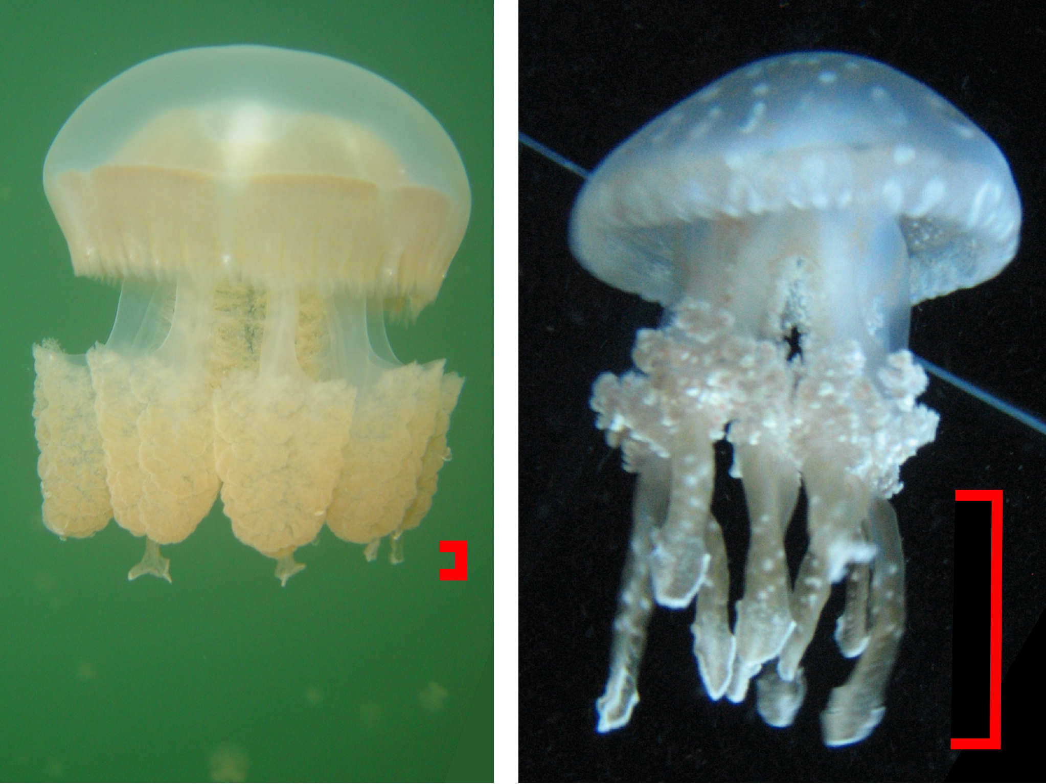 left image: golden jellyfish (Mastigias cf. papua etpisoni) in Jellyfish Lake, Palau. right image: spotted jellyfish (Mastigias papua) at the New England Aquarium The red bars indicate the extent of the clubs. The clubs are almost completely absent in the golden jellyfish that inhabits the jellyfish lake. The original images were realigned and resized for comparison purposes.